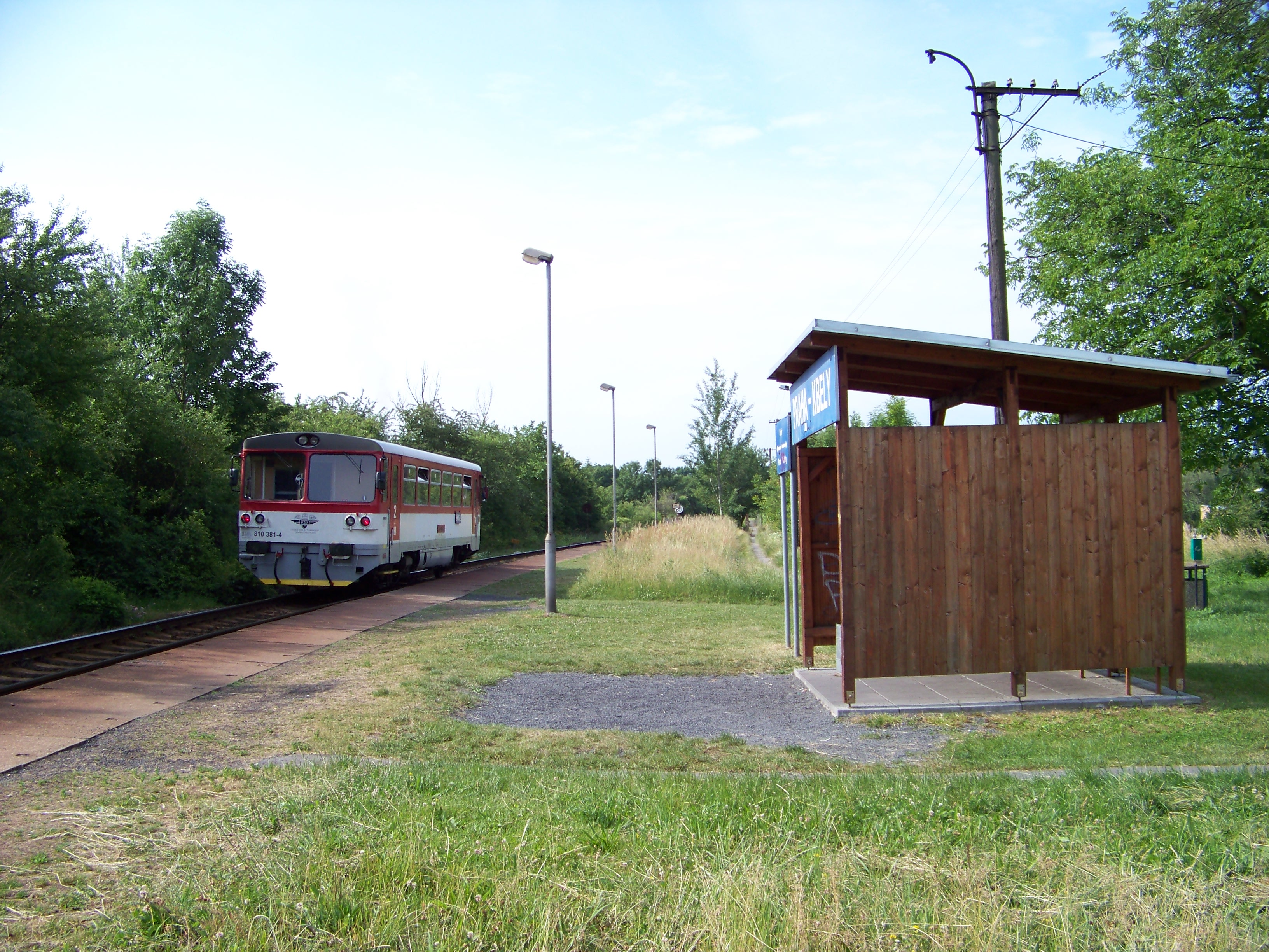 Prague-Kbely, Czech Republic. A train stop.